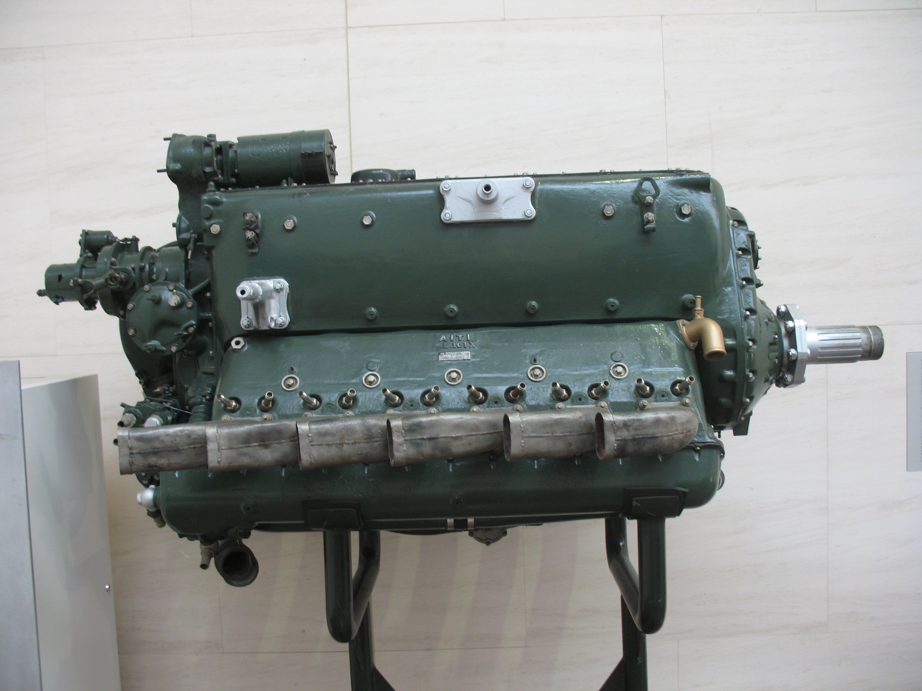 Aichi Atsuta 21